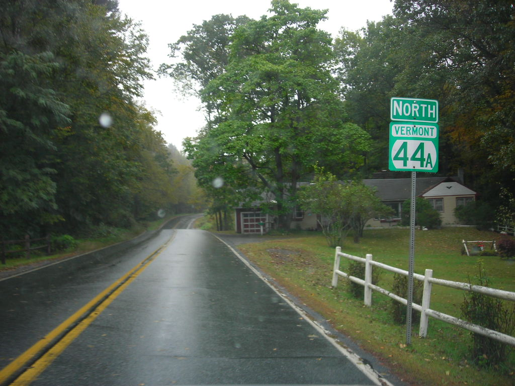 Progressing northbound on VT 44 w/shield to the right.